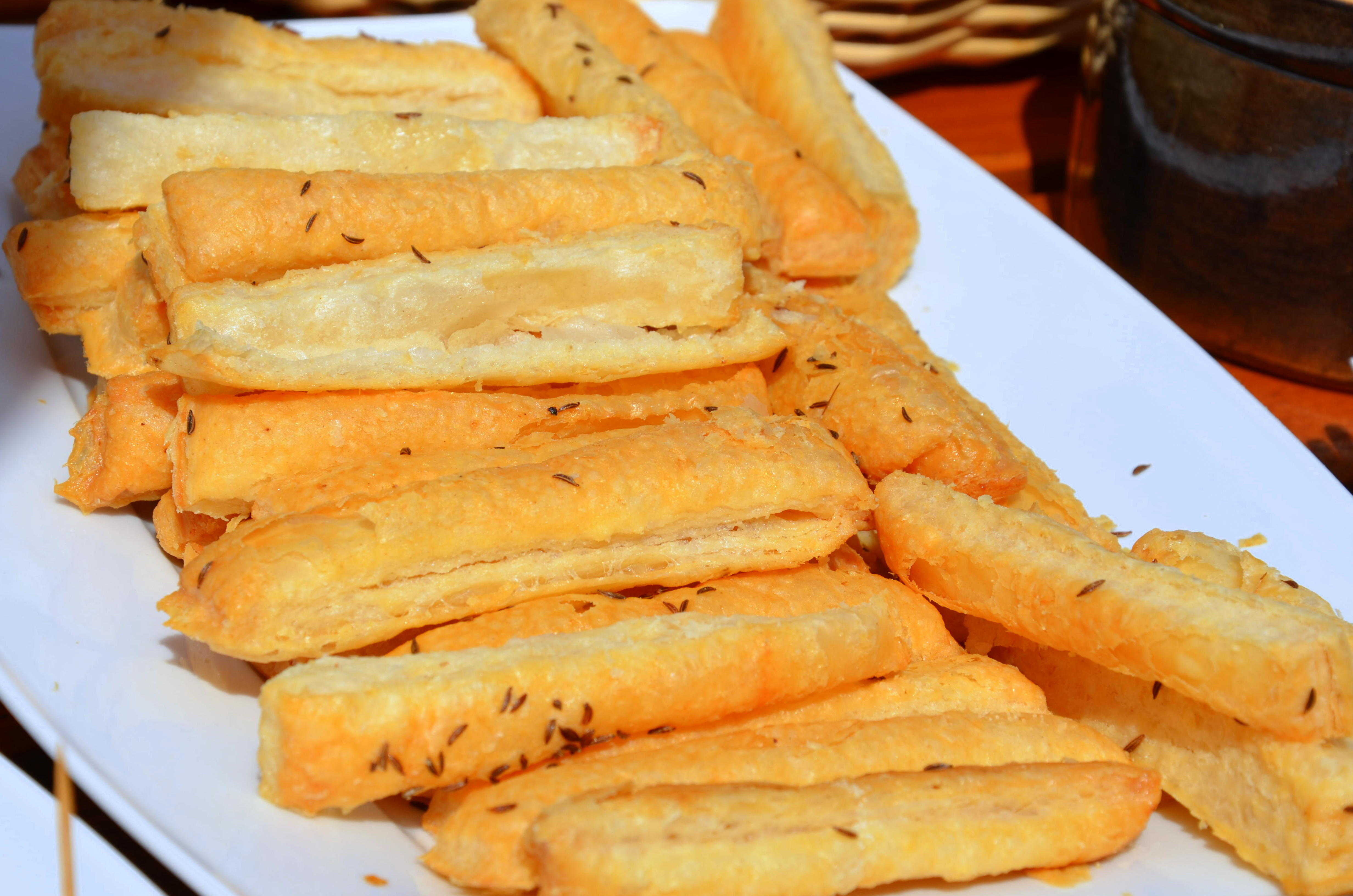 paluszki